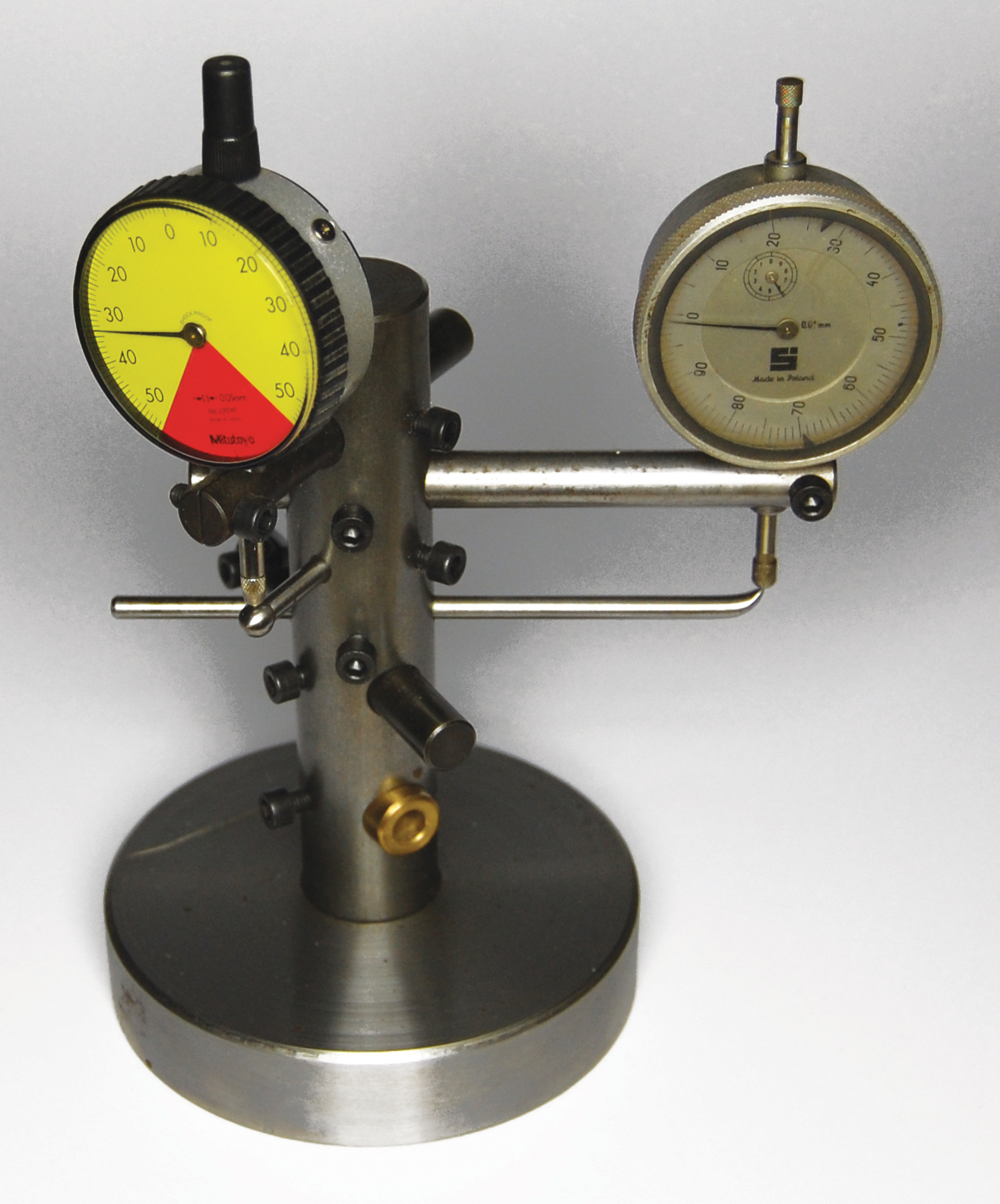 Case Neck Gage